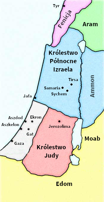 Kingdom of Judah and Israel around 900 BC (Polish texts).